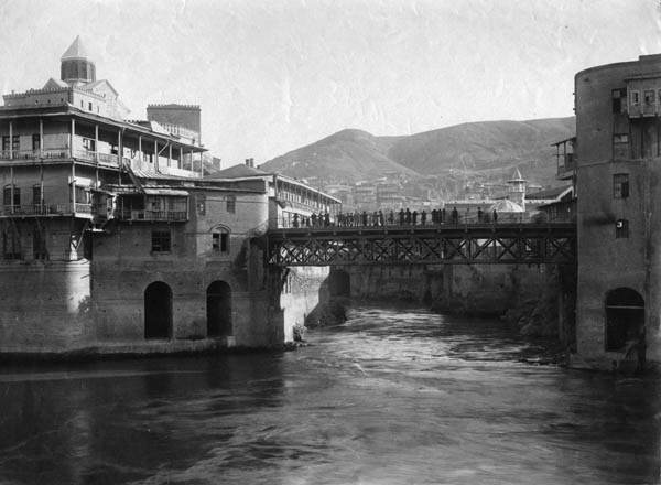 Tbilisi in the 19th century